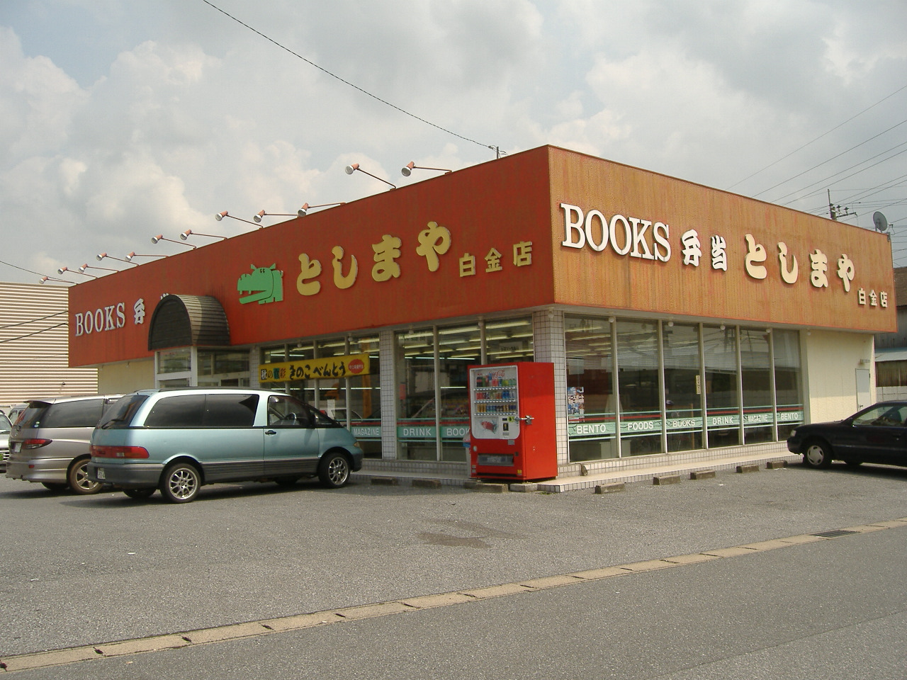 Toshimaya Bento shop(Ichihara,Japan)